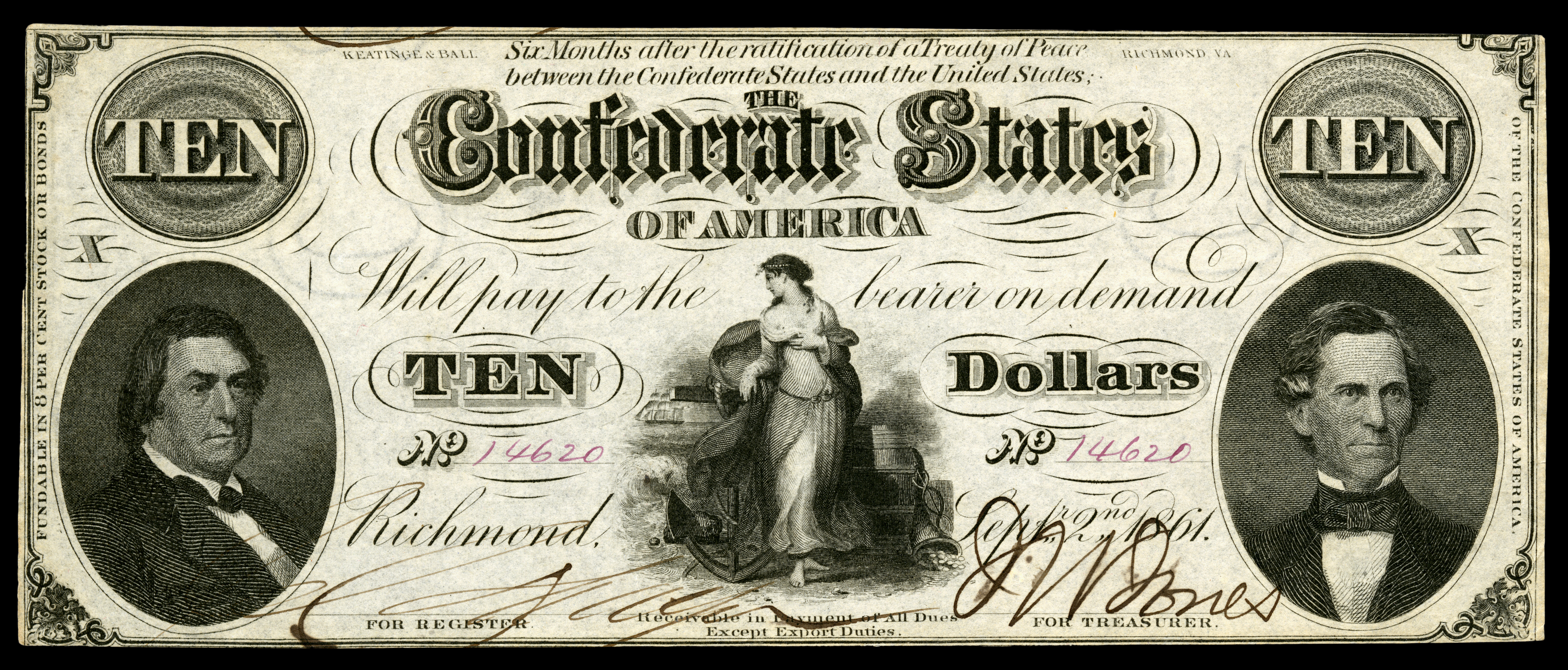 CSA-T25-$10-1862